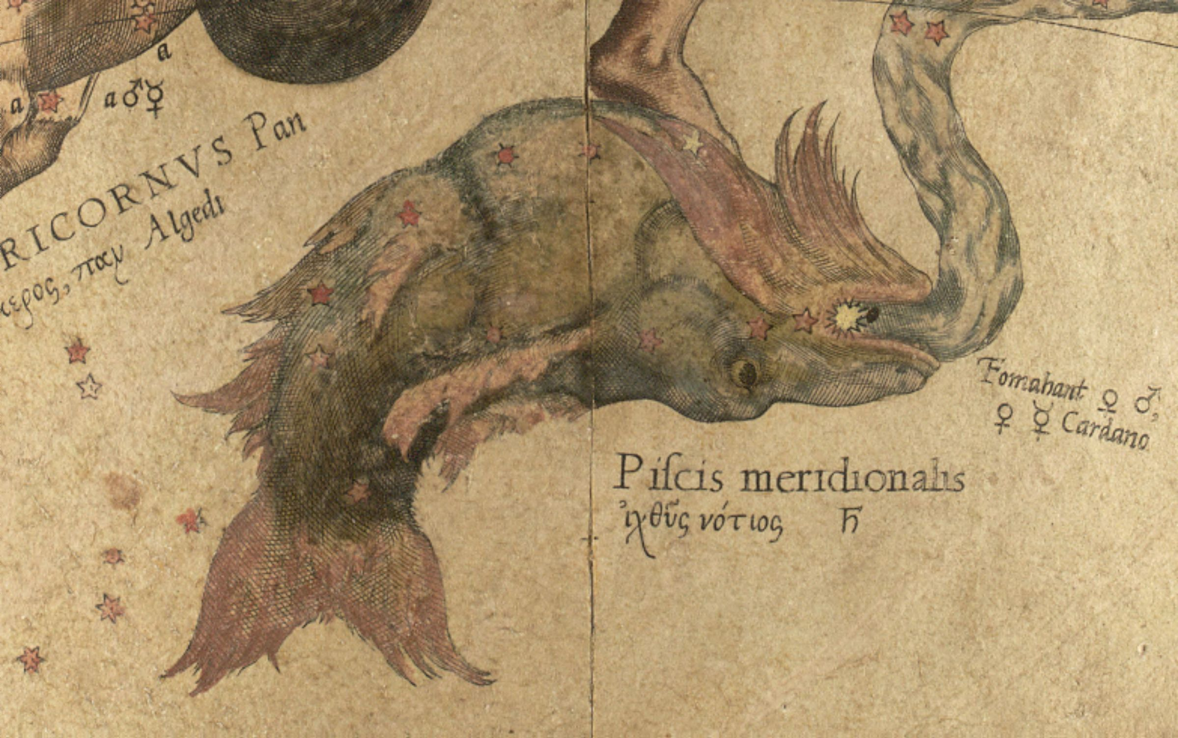 Piscis_Austrinus constellation from the Mercator celestial globe.